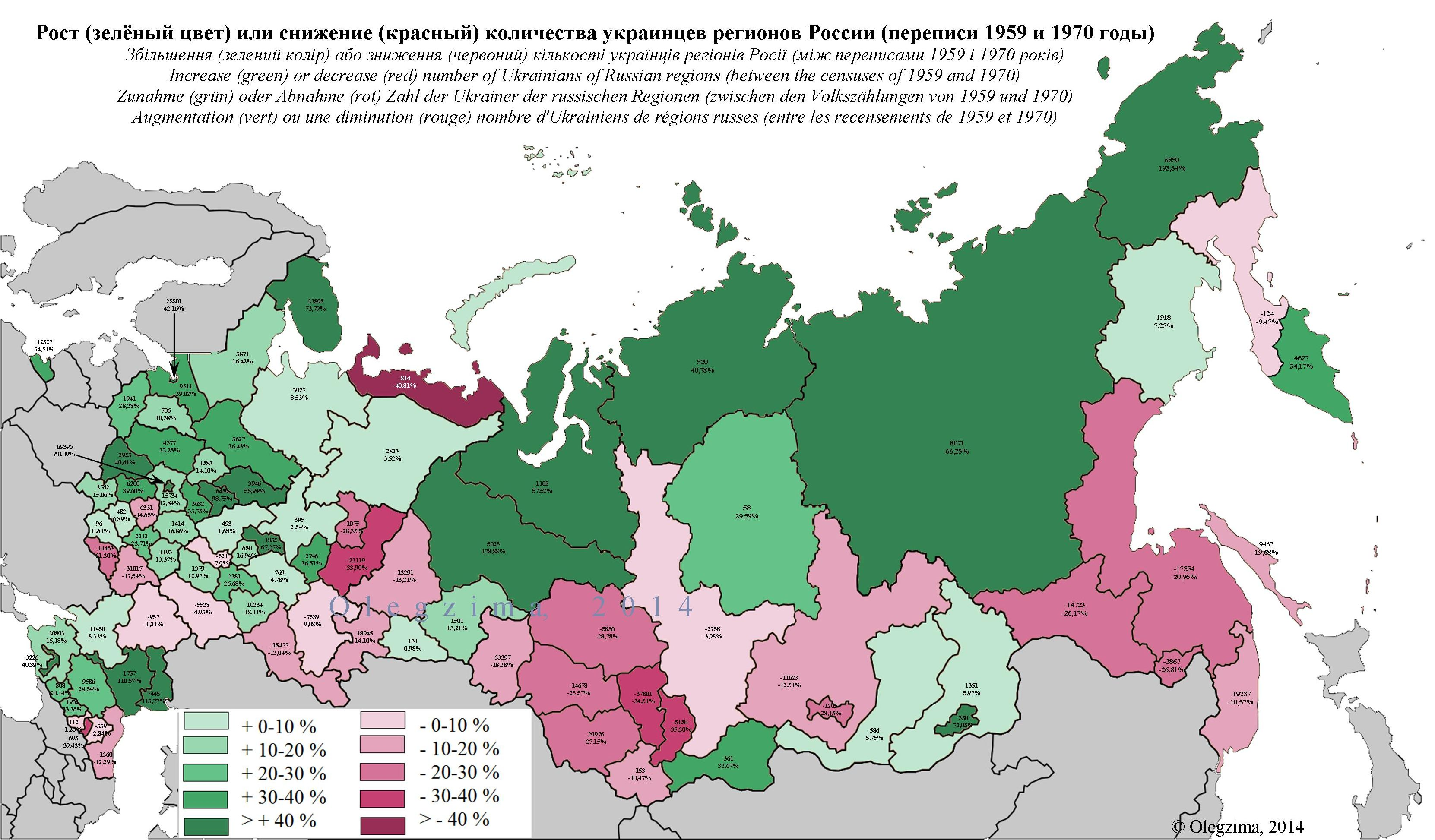 Increase (green) or decrease (red) number of Ukrainians of Russian regions (between the censuses of 1959 and 1970)